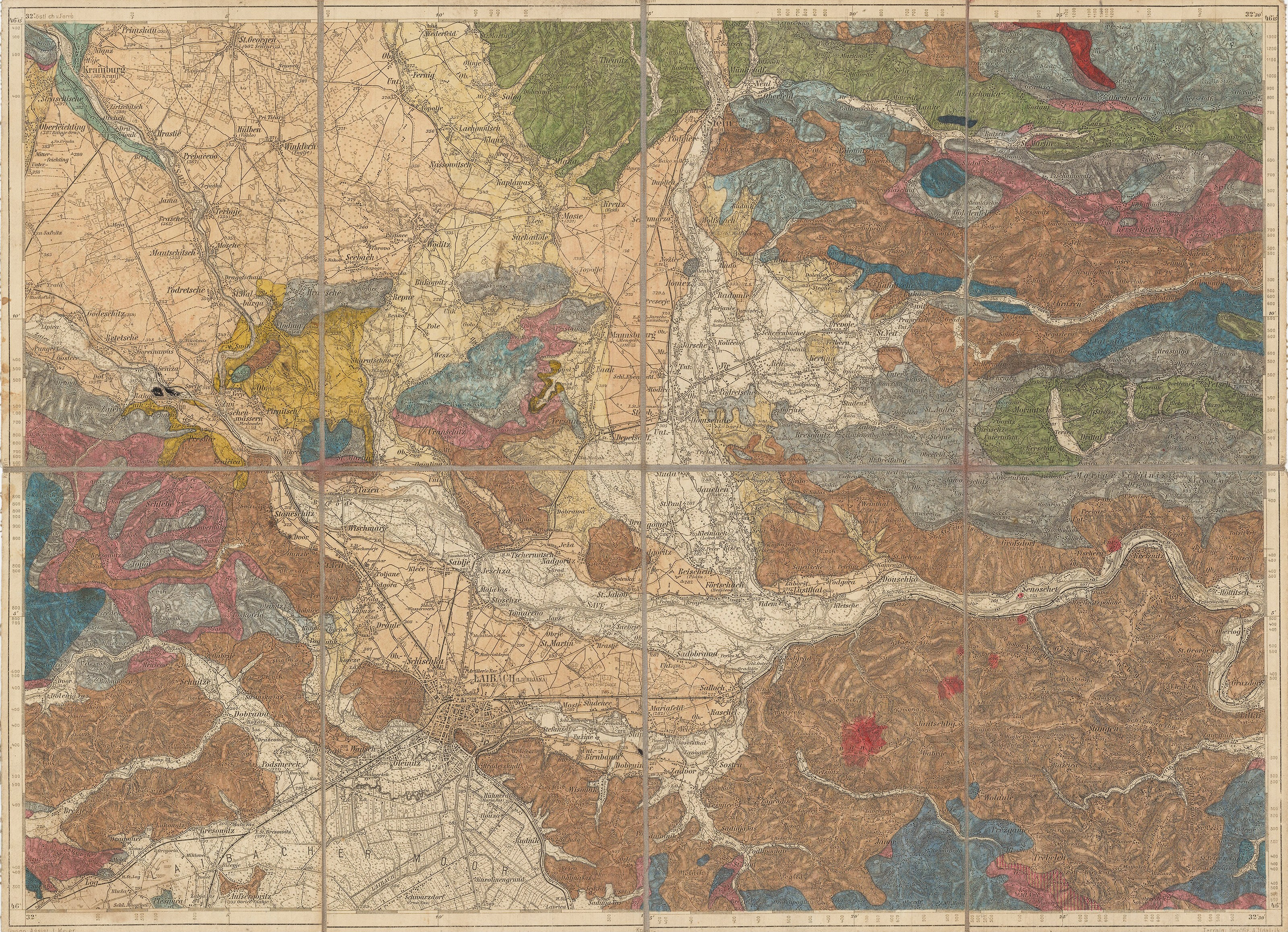 Lithographed map showing the geological structure of the central Slovenia.